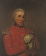 Portait of General William Wemyyss